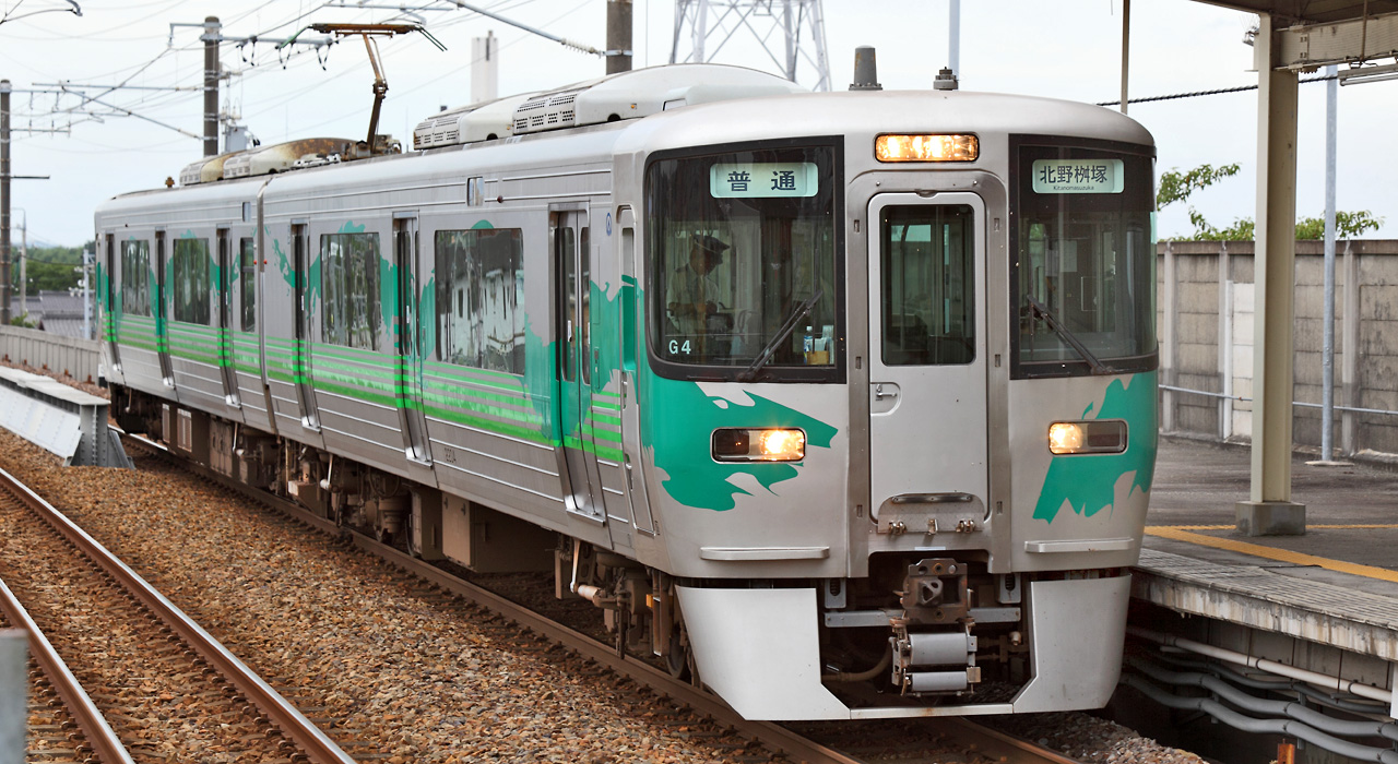 Aichi Loop Railway 2000 series EMU set G4 at Naka-Okazaki Station